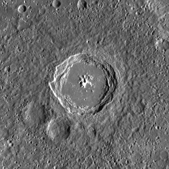 Balzac crater, on Mercury. MESSENGER Wide Angle Camera mosaic. Image is approximately 177 km wide.